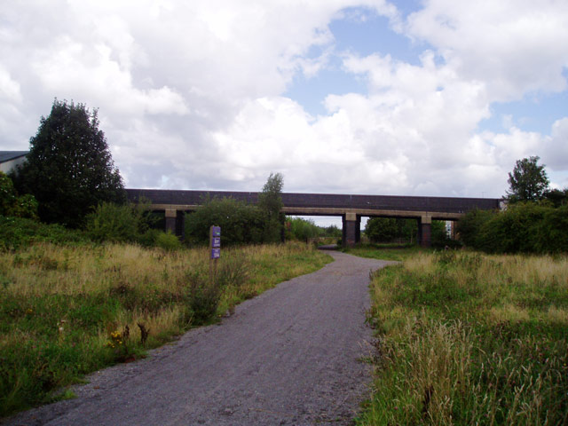 Site of Staveley (Central) railway station in Staveley, Derbyshire. The station closed in 1963. The railway trackbed is now a cycle path, part of the Trans Pennine Trail.